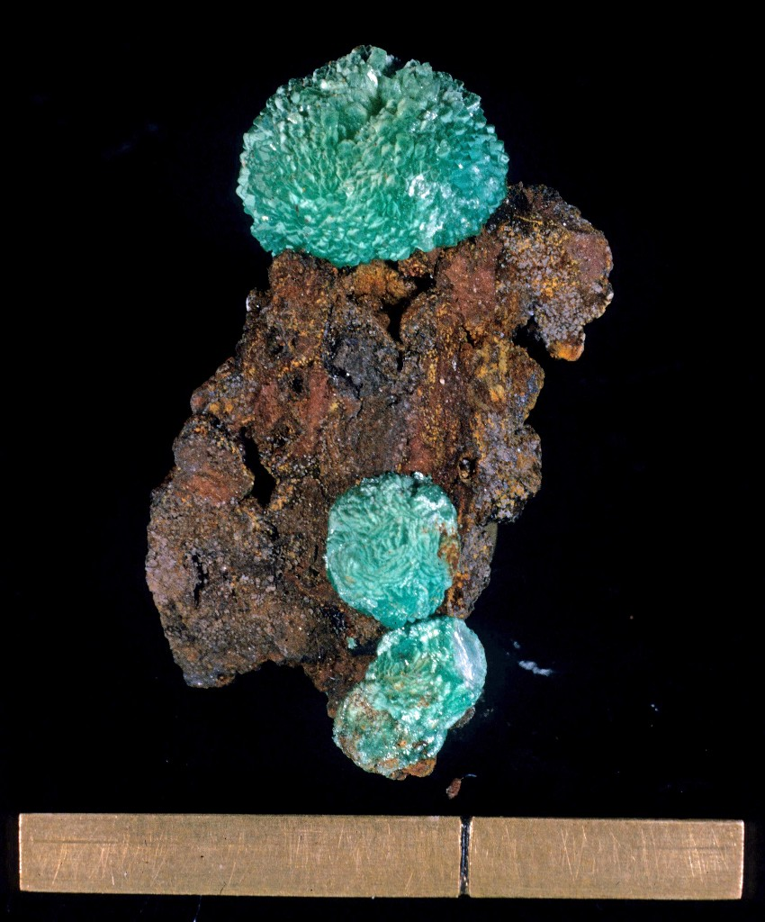 Adamite on Limonite Locality: Gold Hill, Gold Hill District (Clifton District), Deep Creek Mts, Tooele Co., Utah, USA The scale at bottom of the image is an inch with a rule at one cm.